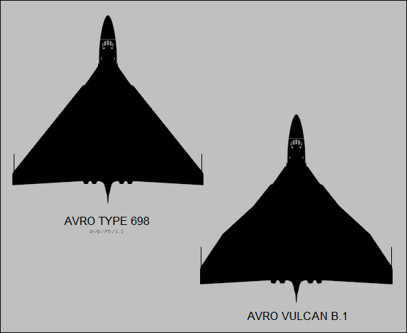 Plan-view silhouettes of the Avro 698 prototype and Vulcan B.1